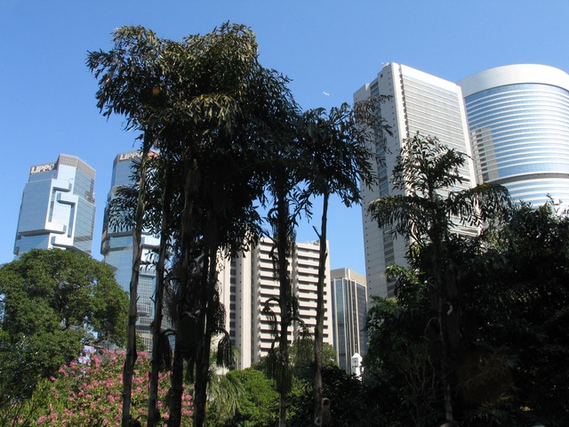 Hong Kong Park, Hong Kong. With Lippo Centre and Pacific Place in the background.